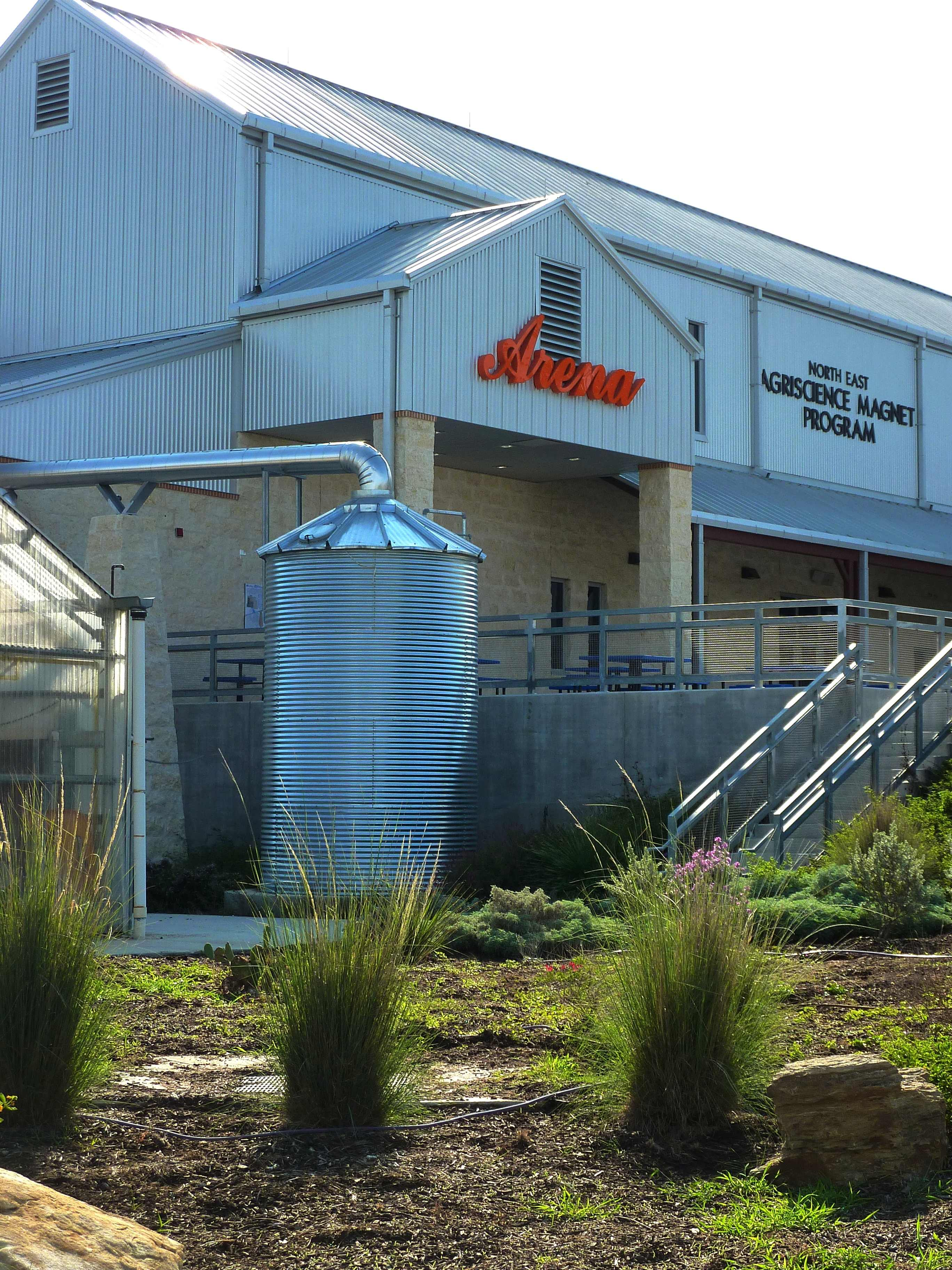 The Arena